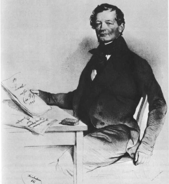 Anton Diabelli(1781-1858). He is a publisher. To whom had Beethoven the famous Diabelli-Variation composed.